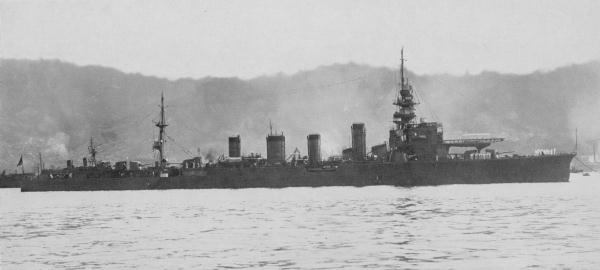 "Jintsu", light cruiser of the Imperial Japanese Navy, anchoring in the Kure Naval Port.